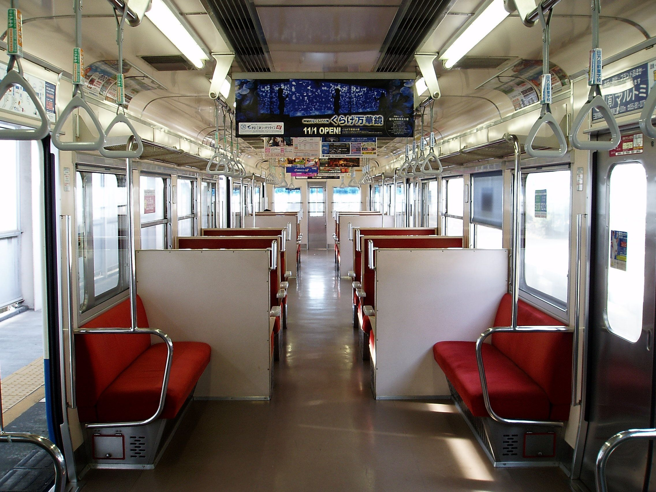 Isuhakone Railway In the car No.1 EMU Type 3000 2007.11.26 Photo by Cassiopeia_sweet.